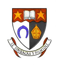 Dornoch Academy School Crest from 1994